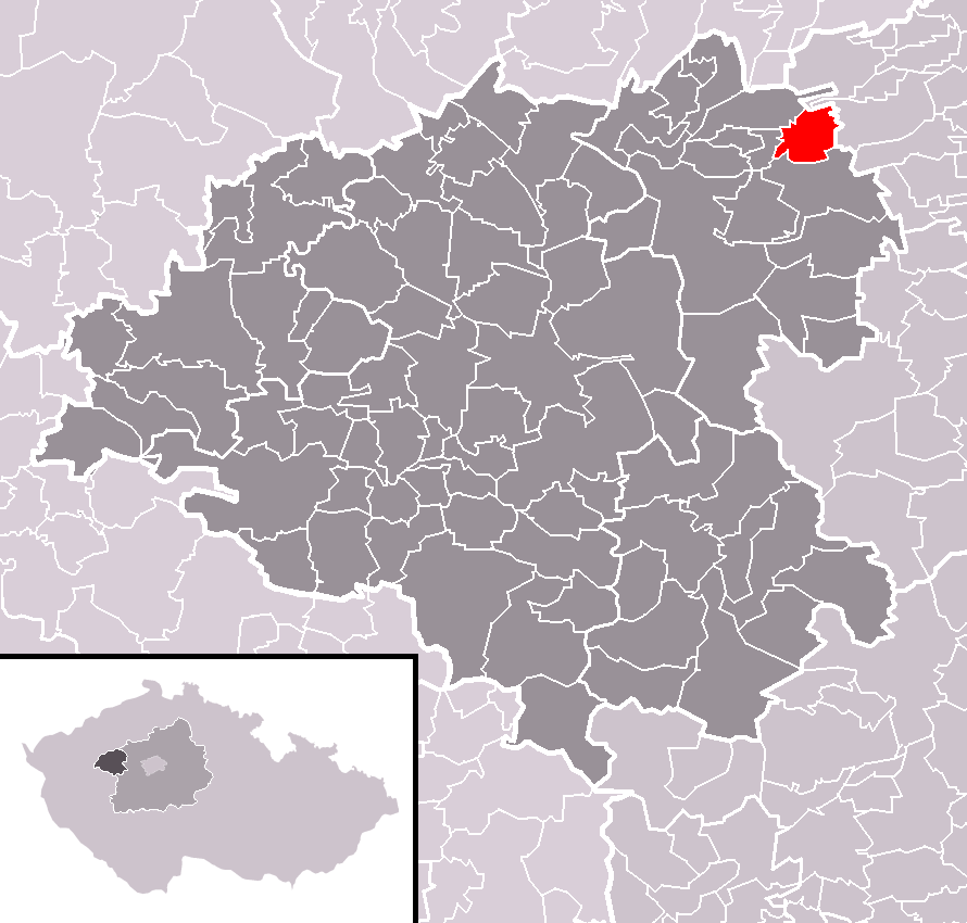 Location of Srbeč municipality within Rakovník District and (identical) administrative area of Rakovník as a Municipality with Extended Competence.